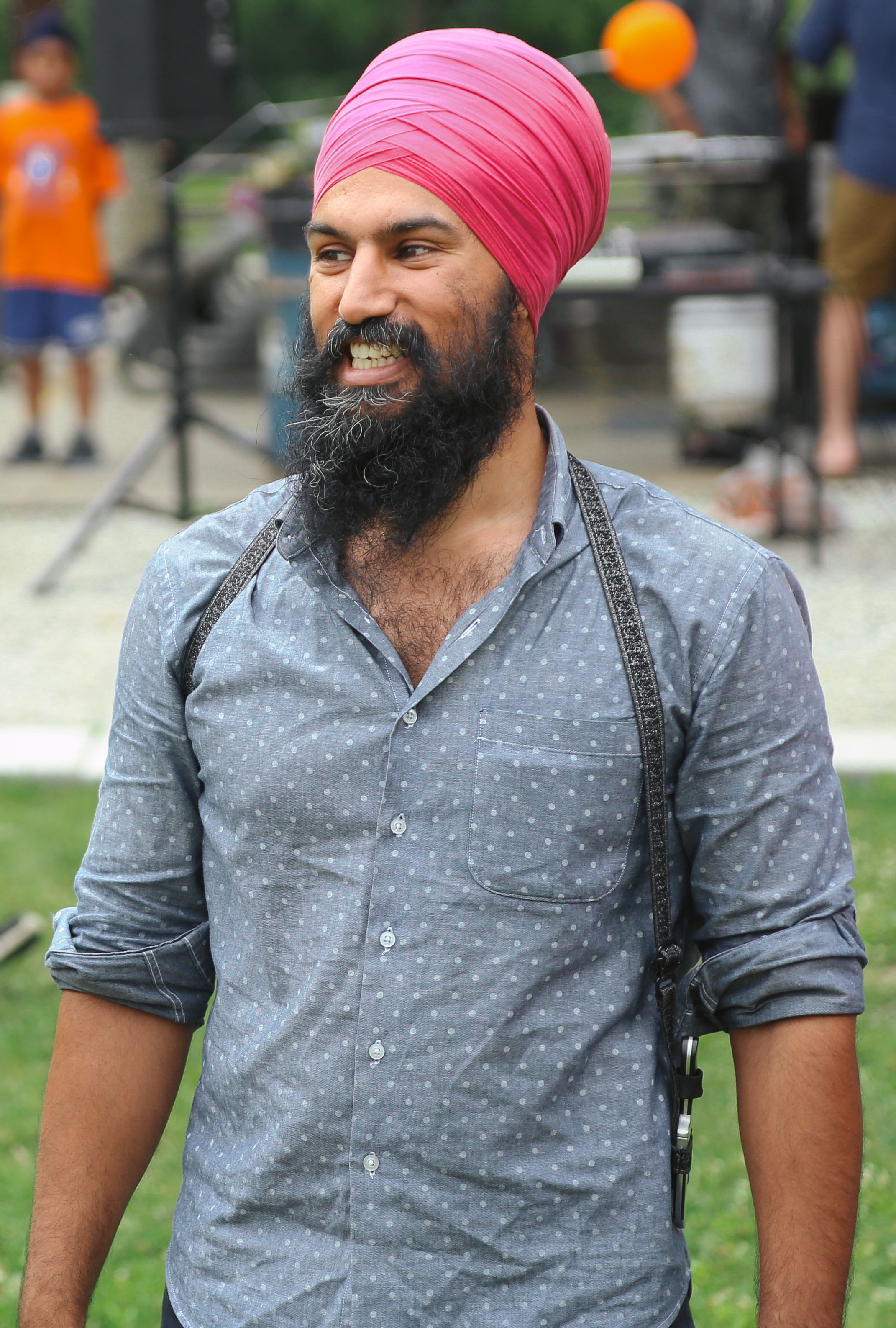 This is a picture of MPP Jagmeet Singh at his annual community BBQ in 2014, taking place at Wildwood Park in Malton, Ontario.